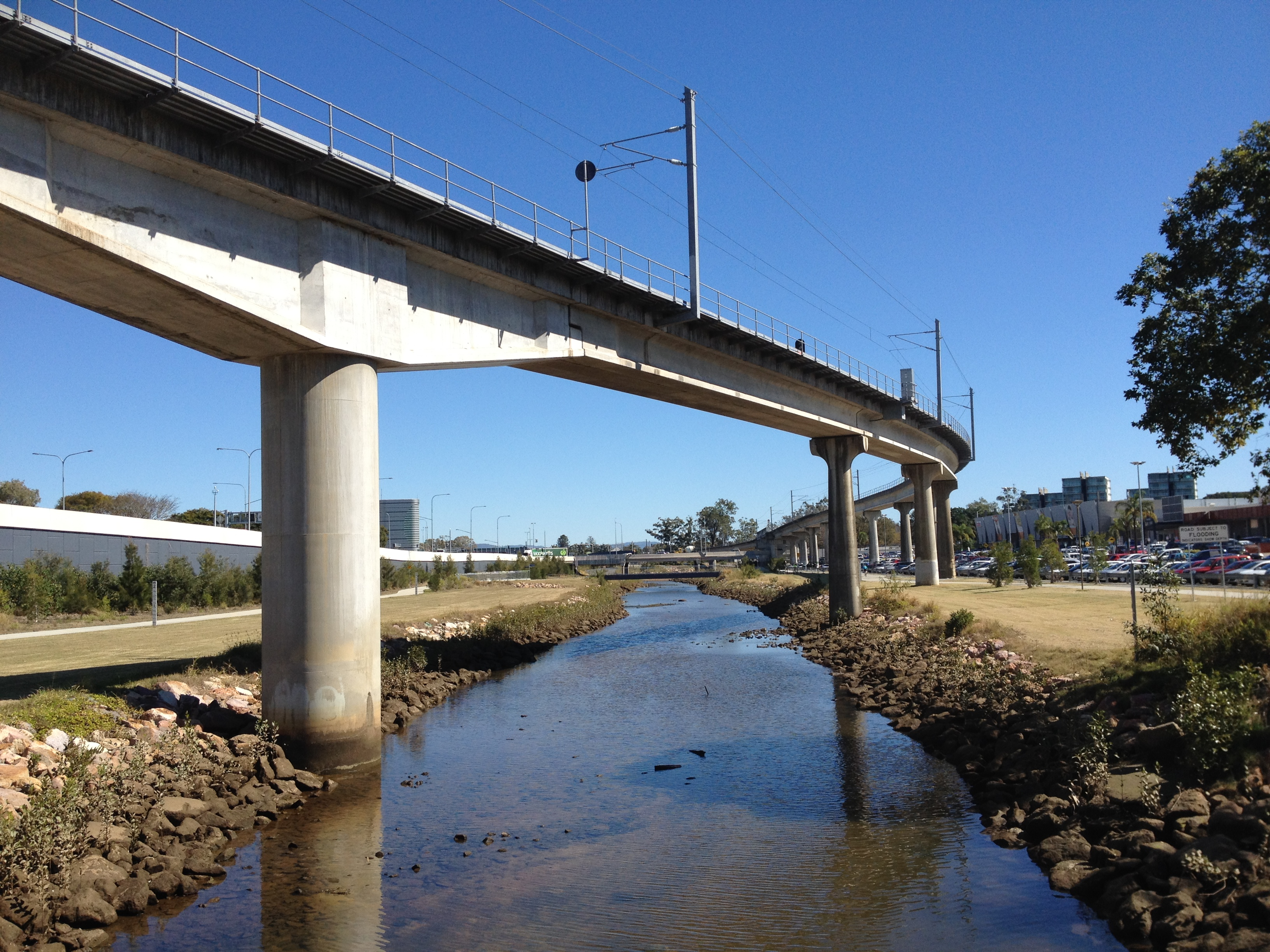 Kedron Brook and Airport railway line, Brisbane in Nundah, Queensland looking west from Widdop Street Bridge